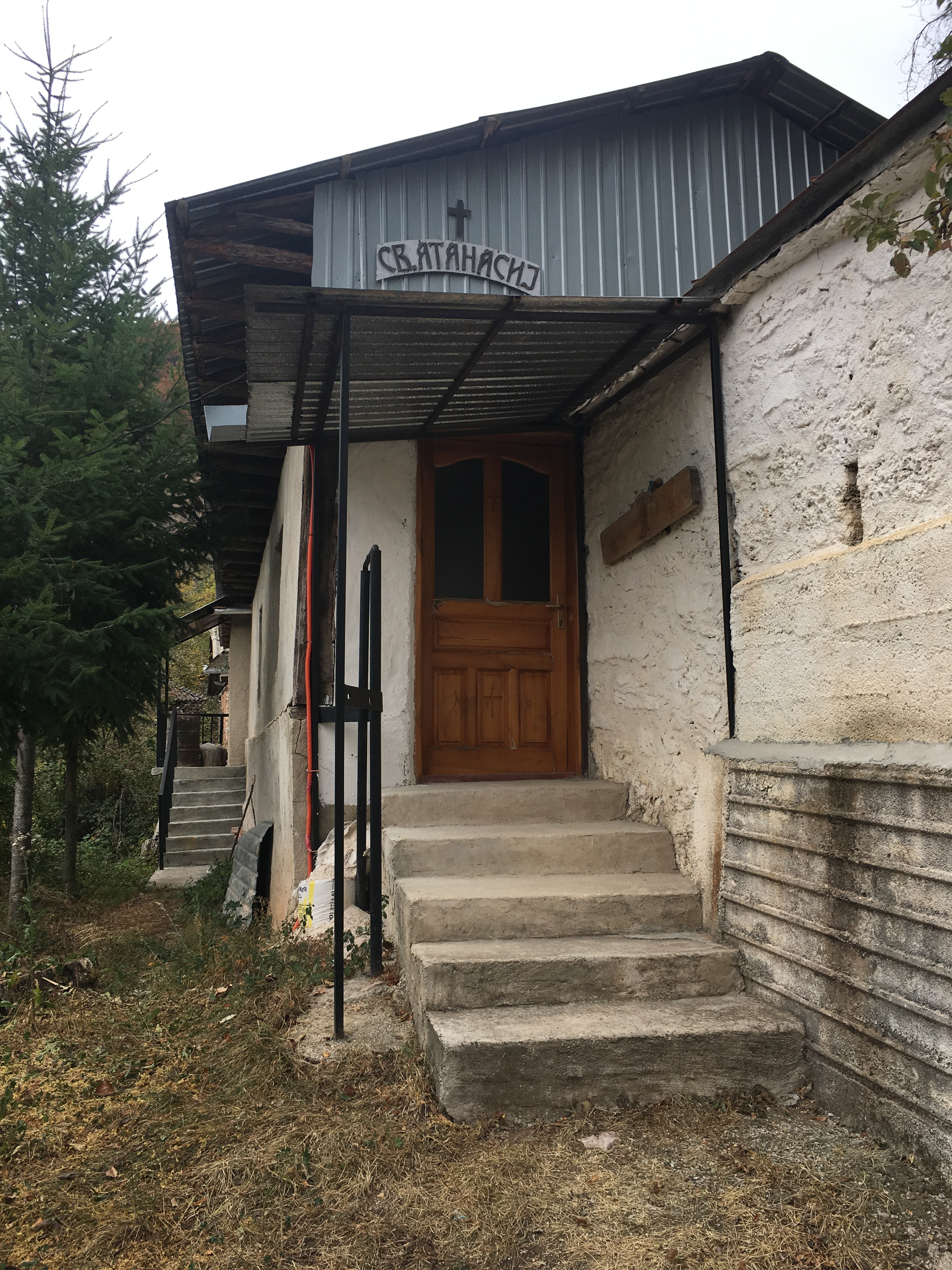 Wikiexpedition to Kopačka